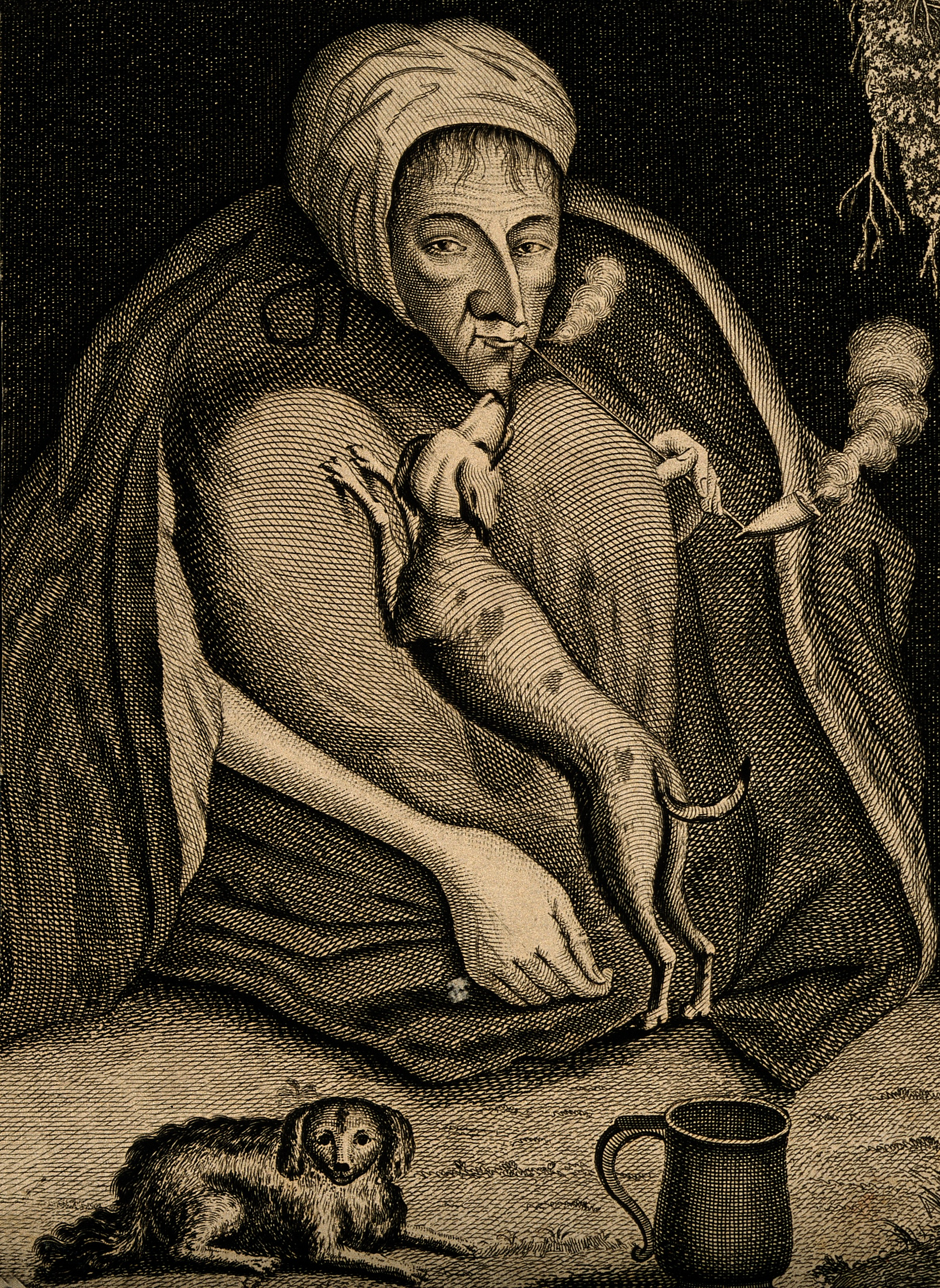 Margaret Finch, aged 108. Line engraving. Iconographic Collections Keywords: Margaret Finch; engravings; aged persons; finch, margaret, d. 1740; portrait prints; Gypsies